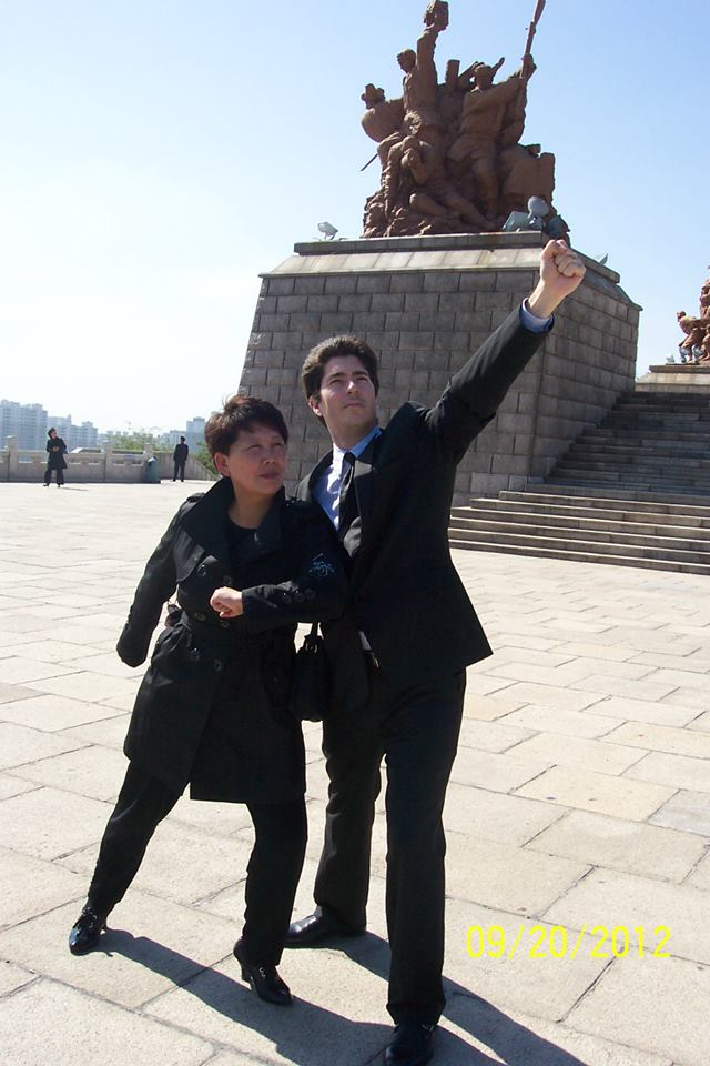 user:geraldshields11 leading the fashionable dressed masses to improve Wikimedia one photograph at a time.